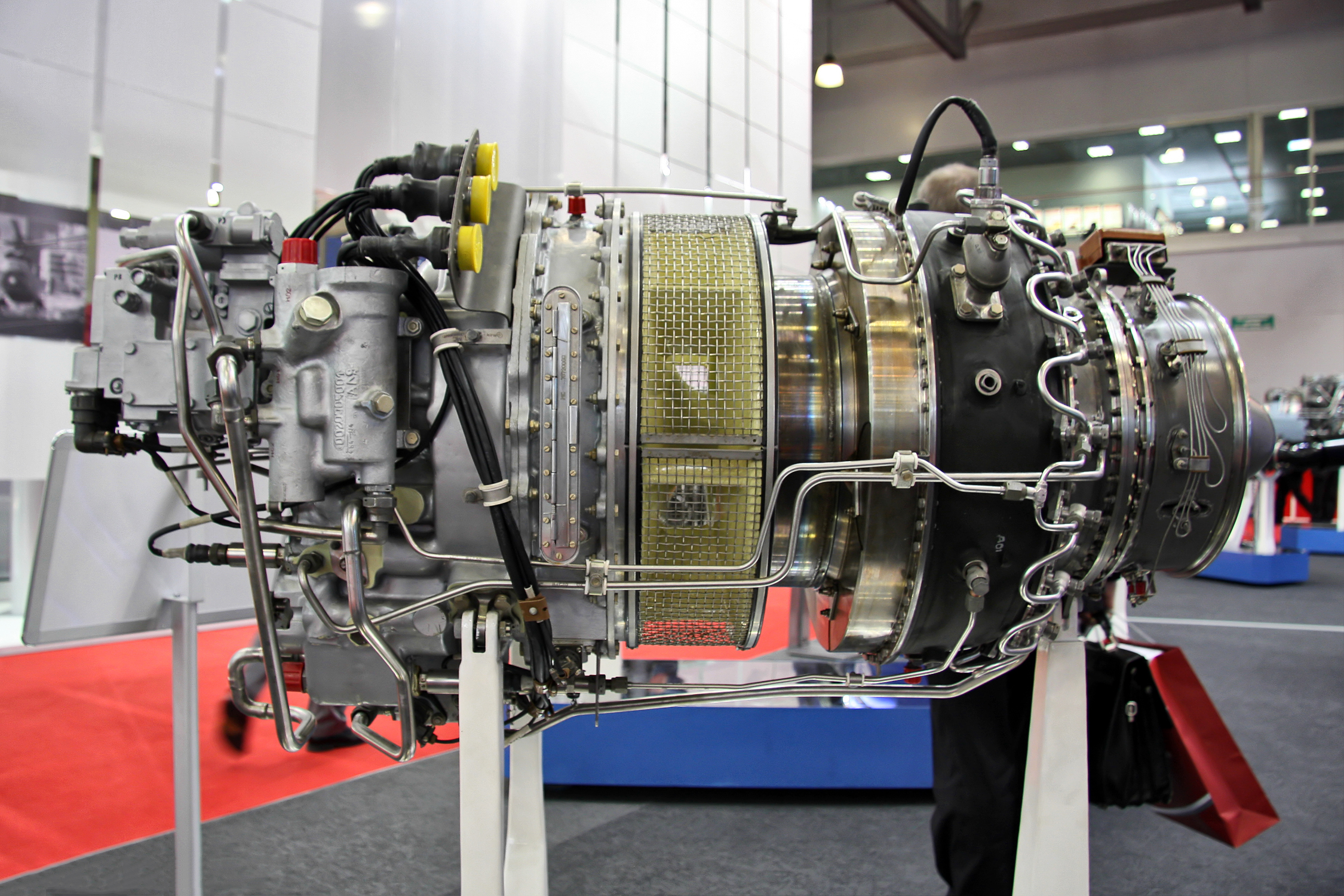 Turboshaft engine MS-500V in 4rd International Helicopter Industry Exhibition HeliRussia 2011